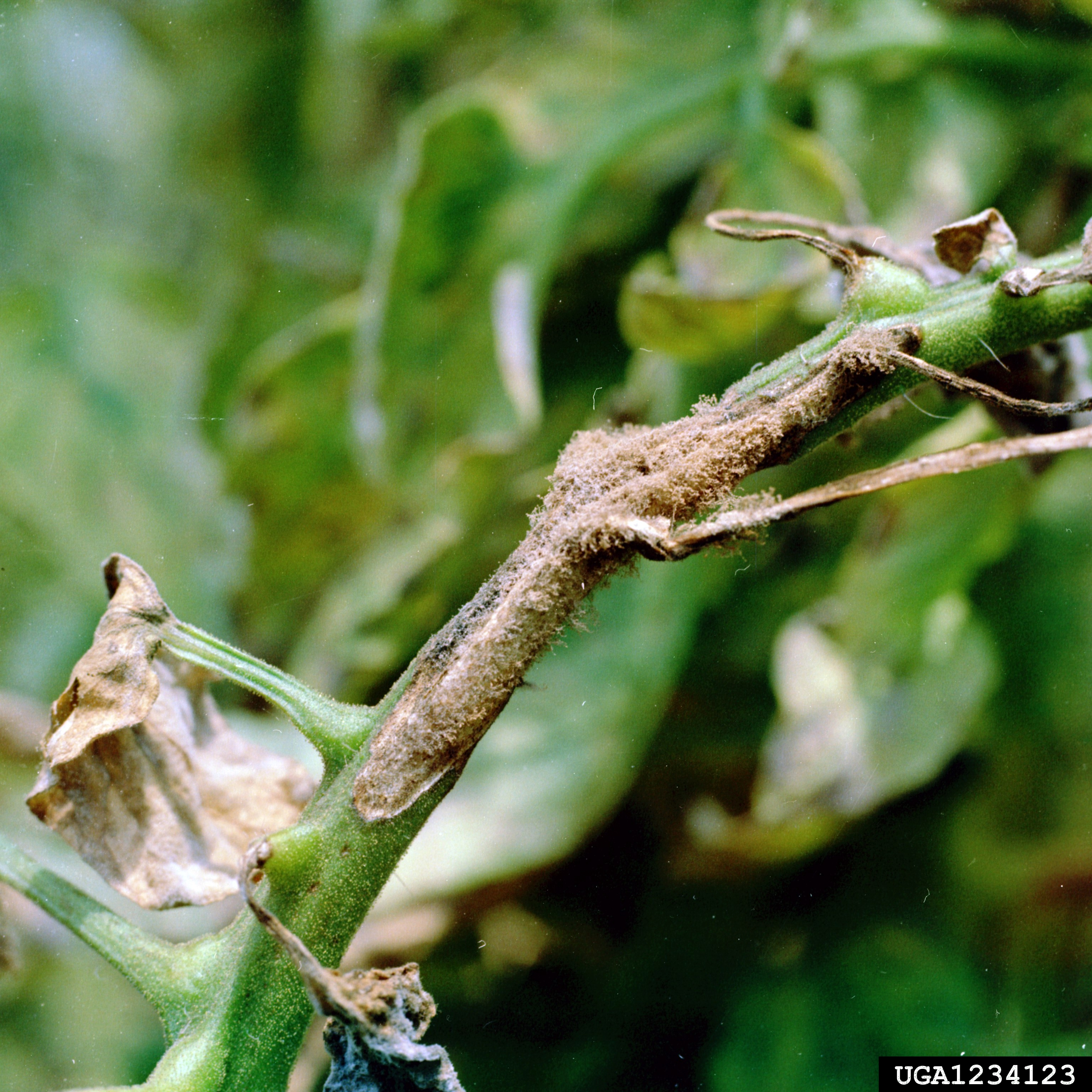 Tomato stem with lesion due to Alternaria solani